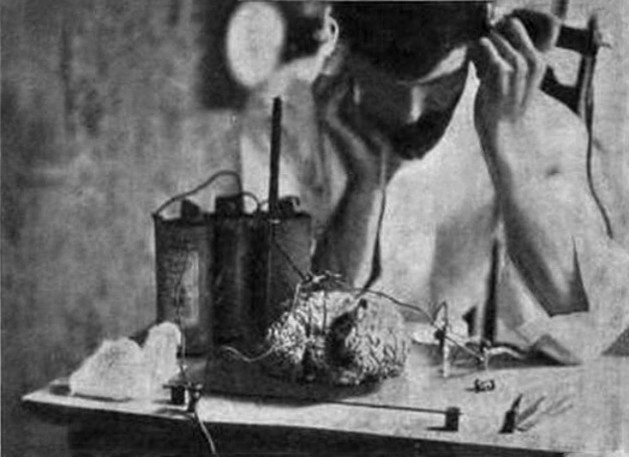 Experiment by US radio engineer Archie Frederick Collins in 1902 to try to use a human brain as a radio wave detector. At this early point in radio history, the poor performance of the existing device used in receivers to detect radio waves, the coherer, motivated much scientific research to find new radio wave detectors. Collins reasoned that since the brain was known to work electrically, it might be sensitive to radio waves. He used a fresh brain from a cadaver in a salt solution, and attached electrodes to the brain tissue. He ran a low DC current from the batteries shown through the tissue. Then he exposed it to radio wave pulses in the UHF band from a Hertzian spark transmitter, and listened for audio signals with earphones in the circuit. If the nervous tissue changed conductivity when the pulses of radio waves hit it, the way a coherer did, it should cause variations in current that should be audible as clicks in the earphone. He claimed that the brain did have a 'cohering' effect, but efforts to repeat his experiment failed to confirm the effect. Alterations to image: removed aliasing artifacts (crosshatched lines) caused by scanning of halftone photo, using Fourier transform filter in Gimp image editor.